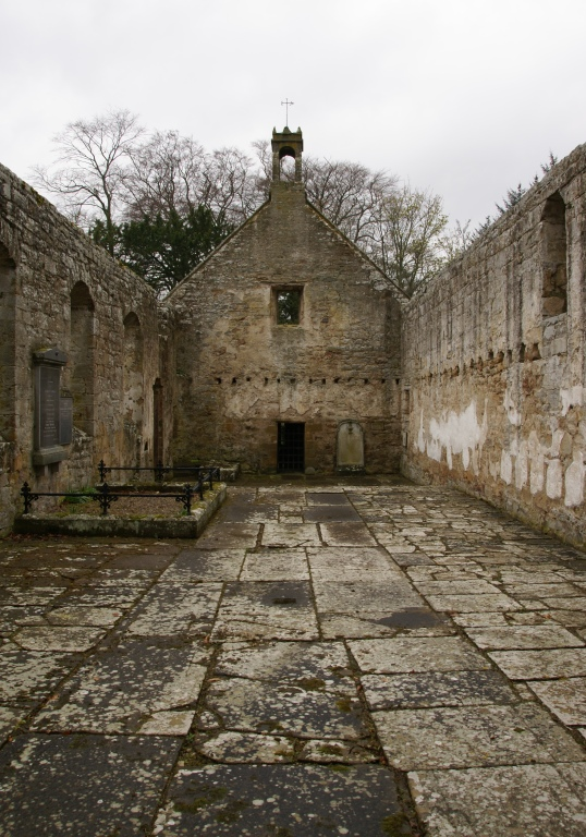 St Peter's Kirk, Duffus, Scotland - interior